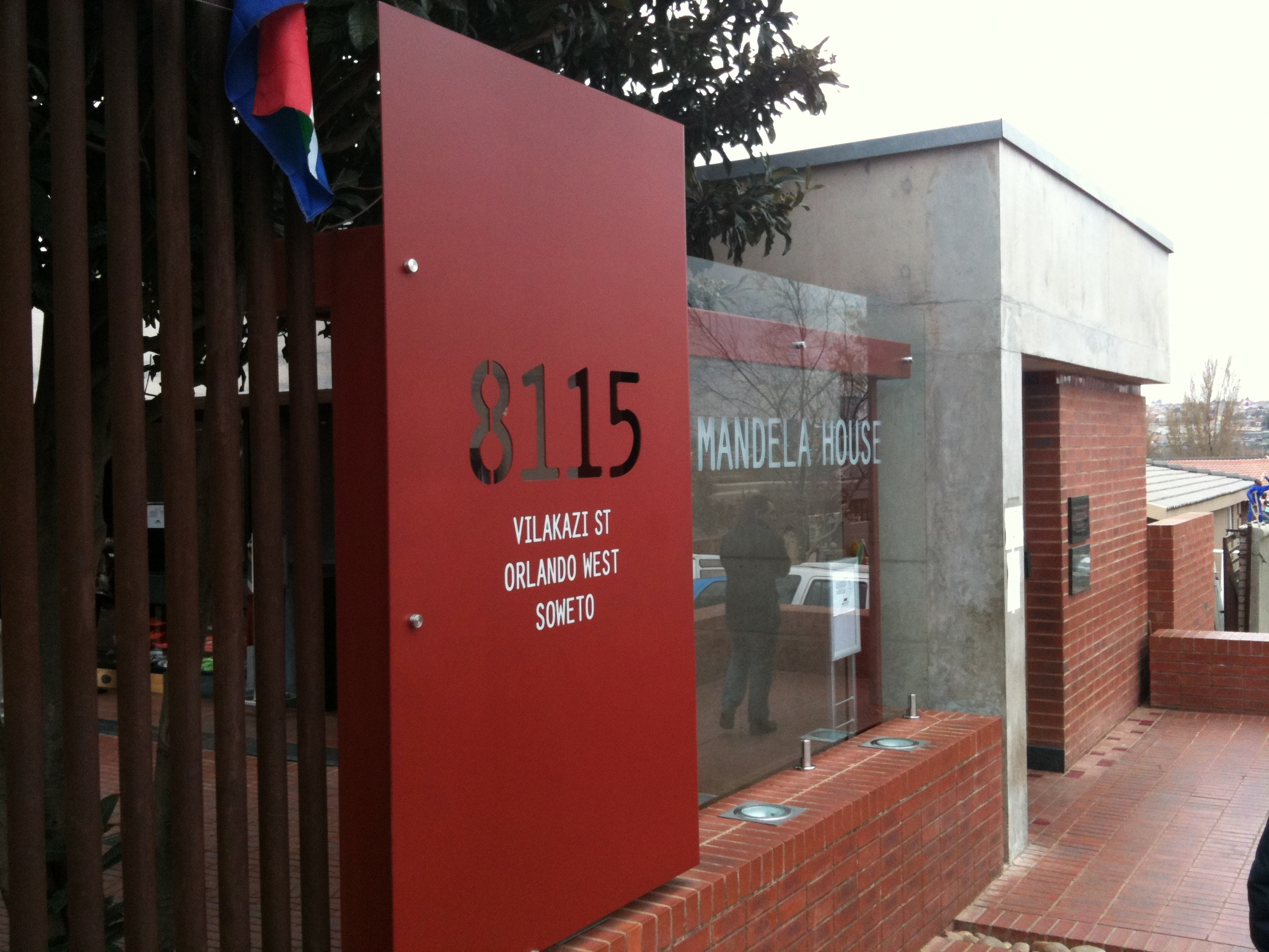 8115 Vilakazi Street Orlando West. Mandela House Soweto